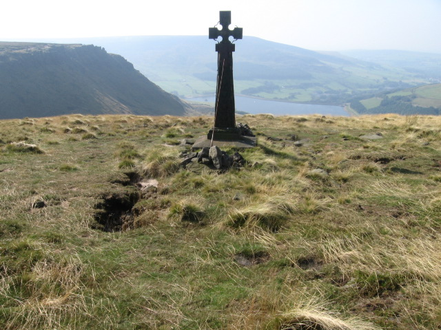 Memorial Cross above Ashway Gap